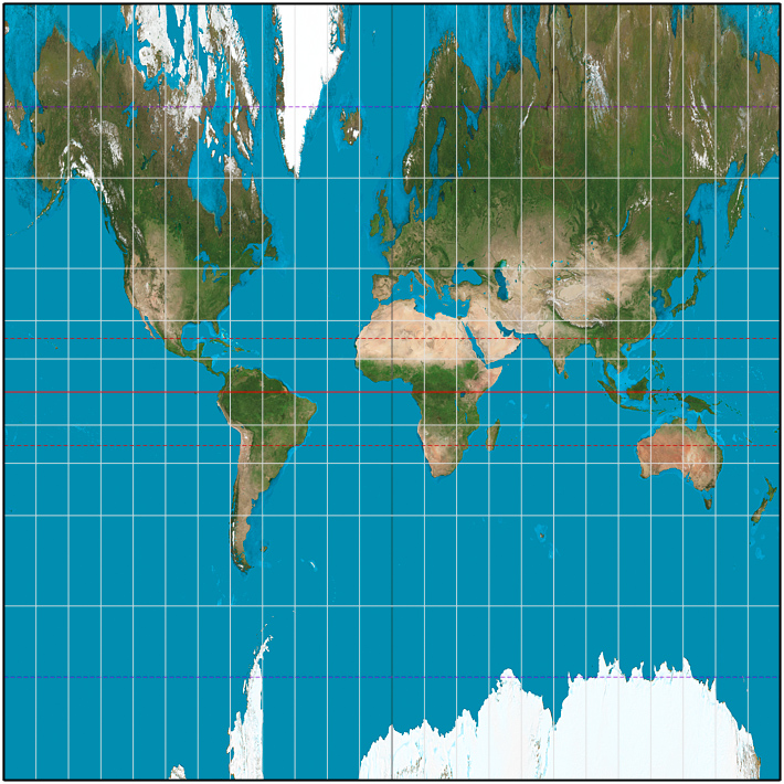 The world on central cylindric projection (= simple perspective cylindric projection) between 72°20'36"S and 72°20'36"N, such that image is square. 15° graticule. Imagery is a derivative of NASA’s Blue Marble summer month composite with oceans lightened to enhance legibility and contrast. Image created with the Geocart map projection software.